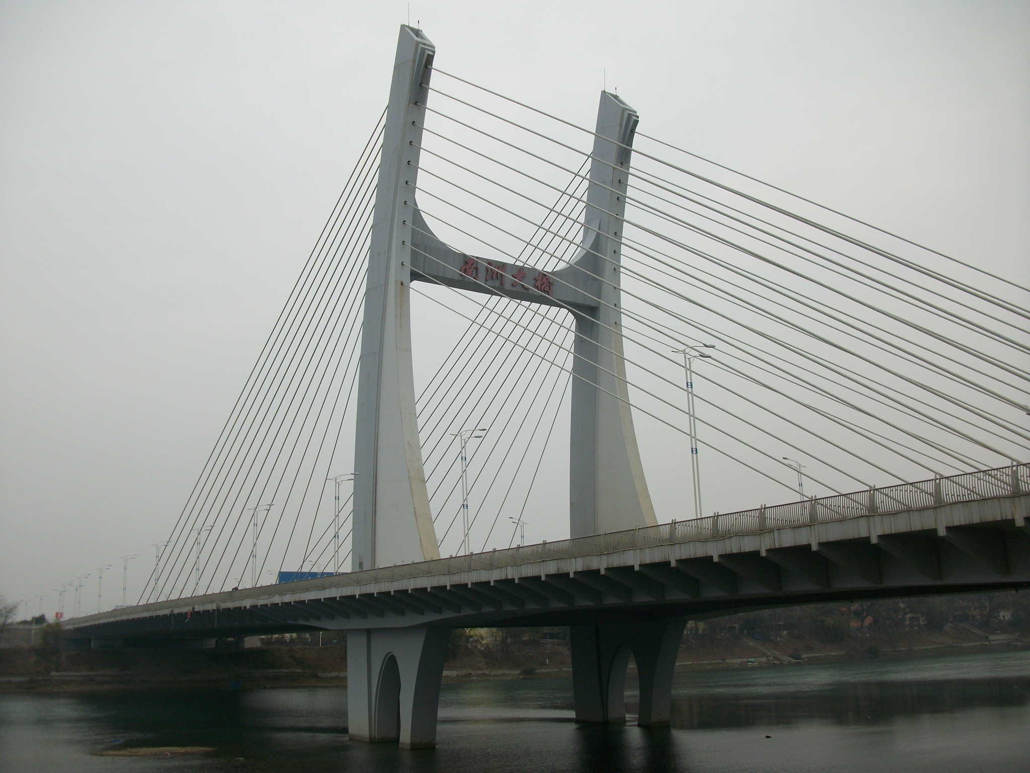 Nanzhou Bridge in Guilin, China.